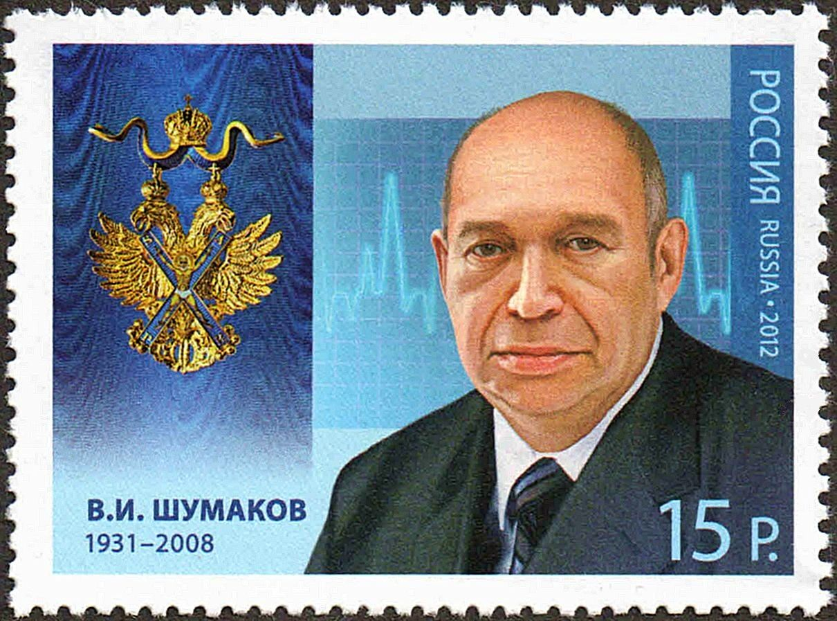 Recipients of the Order of St. Andrew the Apostle the First-Called (the ongoing series, issue II).Valery Shumakov[1] (1931–2008), a Soviet and Russian surgeon and transplantologist, a Full Member of the Russian Academy of Sciences and of Russian Academy of Medical Sciences.There depicted the badge of the Order of St. Andrew on the left. The stamp of Russia, 15.00 Rubles, 29 June 2012, PTC Marka Catalogue No 1604, Michel No 1836. Coated paper. Offset printing, varnish coating. Perforation: comb 12×11½. Size of the stamp: 50×37 mm. Print run: 440,000.